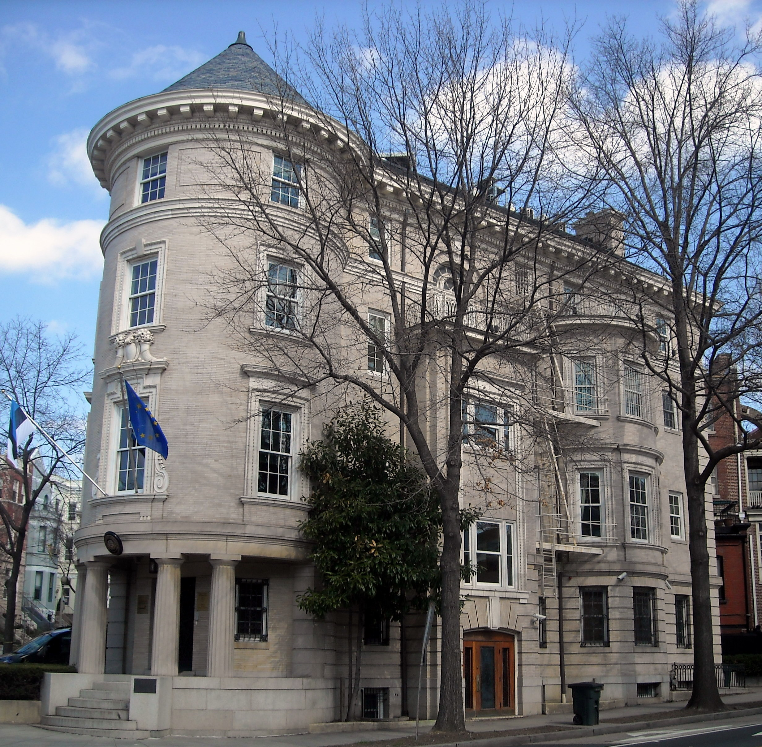 The Embassy of Estonia located at 2131 Massachusetts Avenue, N.W., in the Sheridan-Kalorama neighborhood of Washington, D.C. Constructed in 1905 for physician George A. Barrie, the Flatiron-style building is designated as a contributing property to the Sheridan-Kalorama Historic District and the Massachusetts Avenue Historic District. Notable past tenants include the Peruvian embassy, Landon School, U.S. Senator James H. Brady, and Estonian President Toomas Hendrik Ilves.